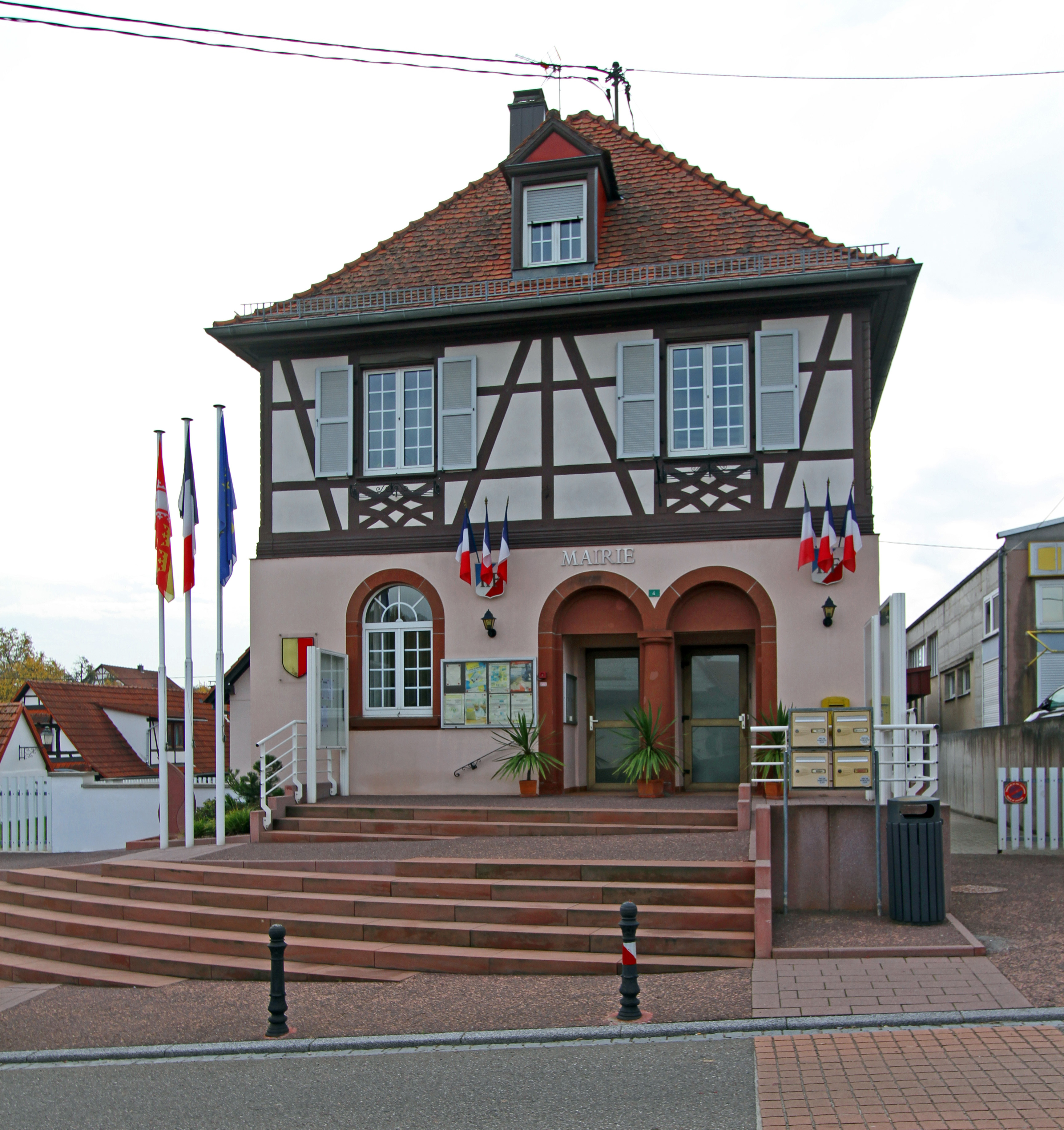 Town hall of Oberhoffen-lès-Wissembourg.